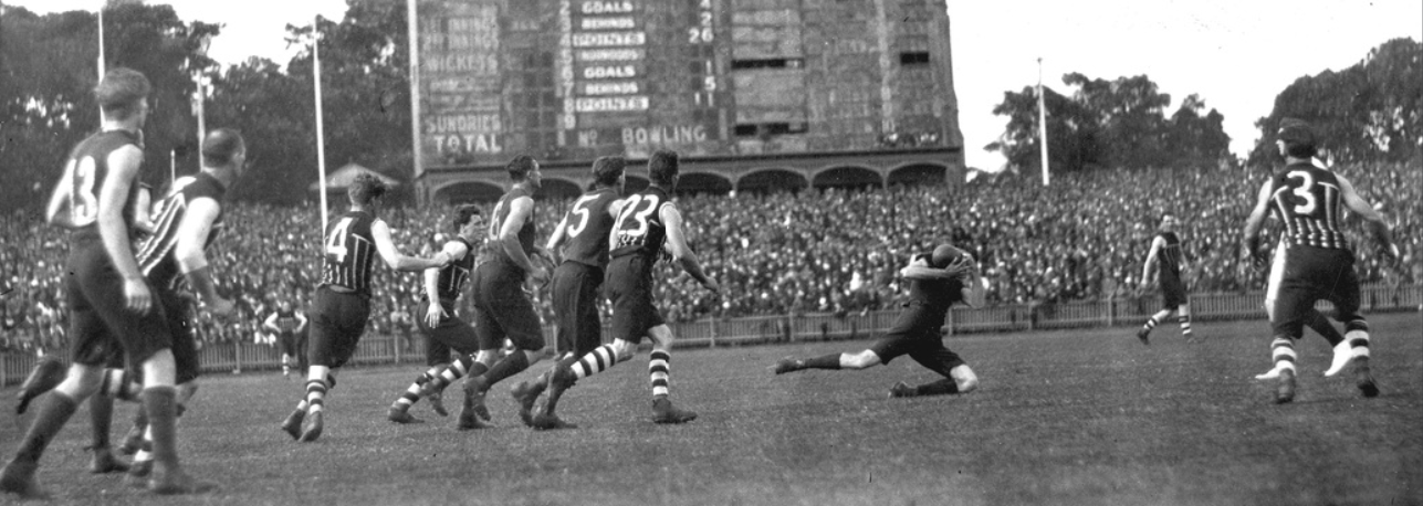 Just before half-time of the 1921 SAFL Grand Final between the Norwood Football Club and Port Adelaide Football Club at Adelaide Oval. The Adelaide Oval Scoreboard is visible in the background with scores reading Port Adelaide 4.2 (26) to Norwood 1.5 (11). A crowd of 34,000 spectators was present for the match. In the picture a Norwood player is taking mark in Port Adelaide's forward 50. Port Adelaide would end up winning the match by 8 points 4.8 (32) to 3.6 (24).